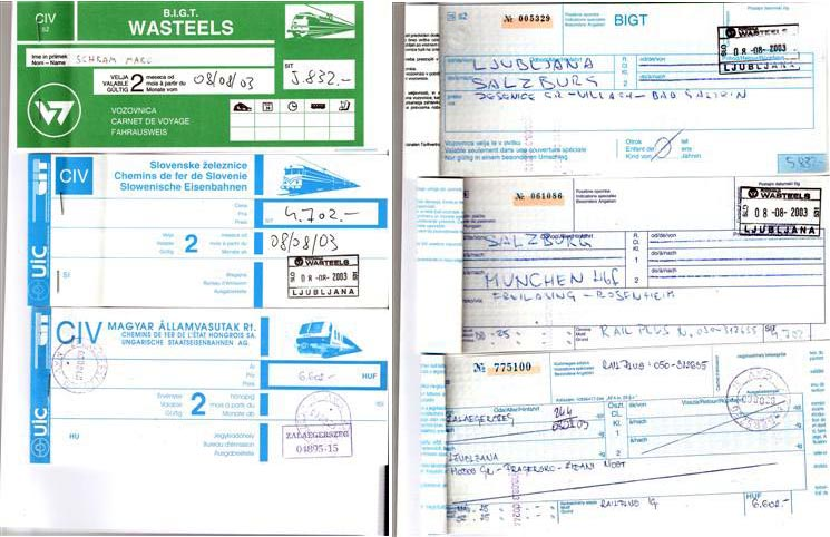 Composite foto of several handwritten international tickets in East-Europe during a trip in 2003. On these tickets the CIV conditions apply